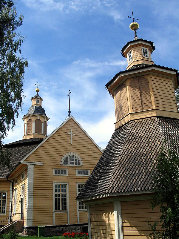 Nastola Church and belfry in Nastola, Finland